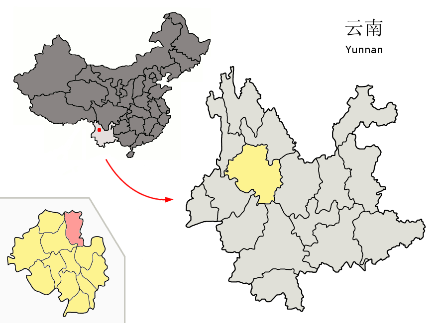 Location of Heqing County (pink) and Dali Prefecture (yellow) within Yunnan province of China Map drawn in september 2007 using various sources, mainly : Yunnan province administrative regions GIS data: 1:1M, County level, 1990 Yunnan Counties map from